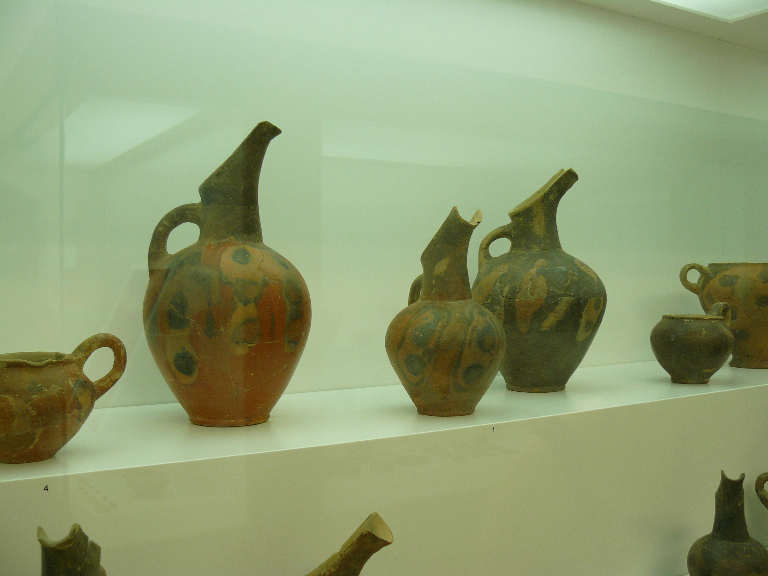 Archaeological museum of Agios Nikolaos, Crete: Three long necked, slender spouded jugs (Schnabelkannen) in Vasiliki-style from Phournou Koryphi.